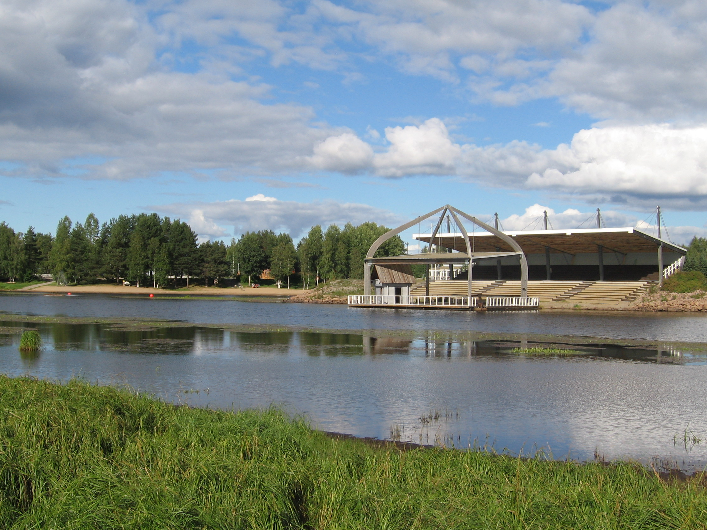 Ounaspaviljonki and Ounaspaviljonki beach at Saarenkylä (Rovaniemi, Finland).